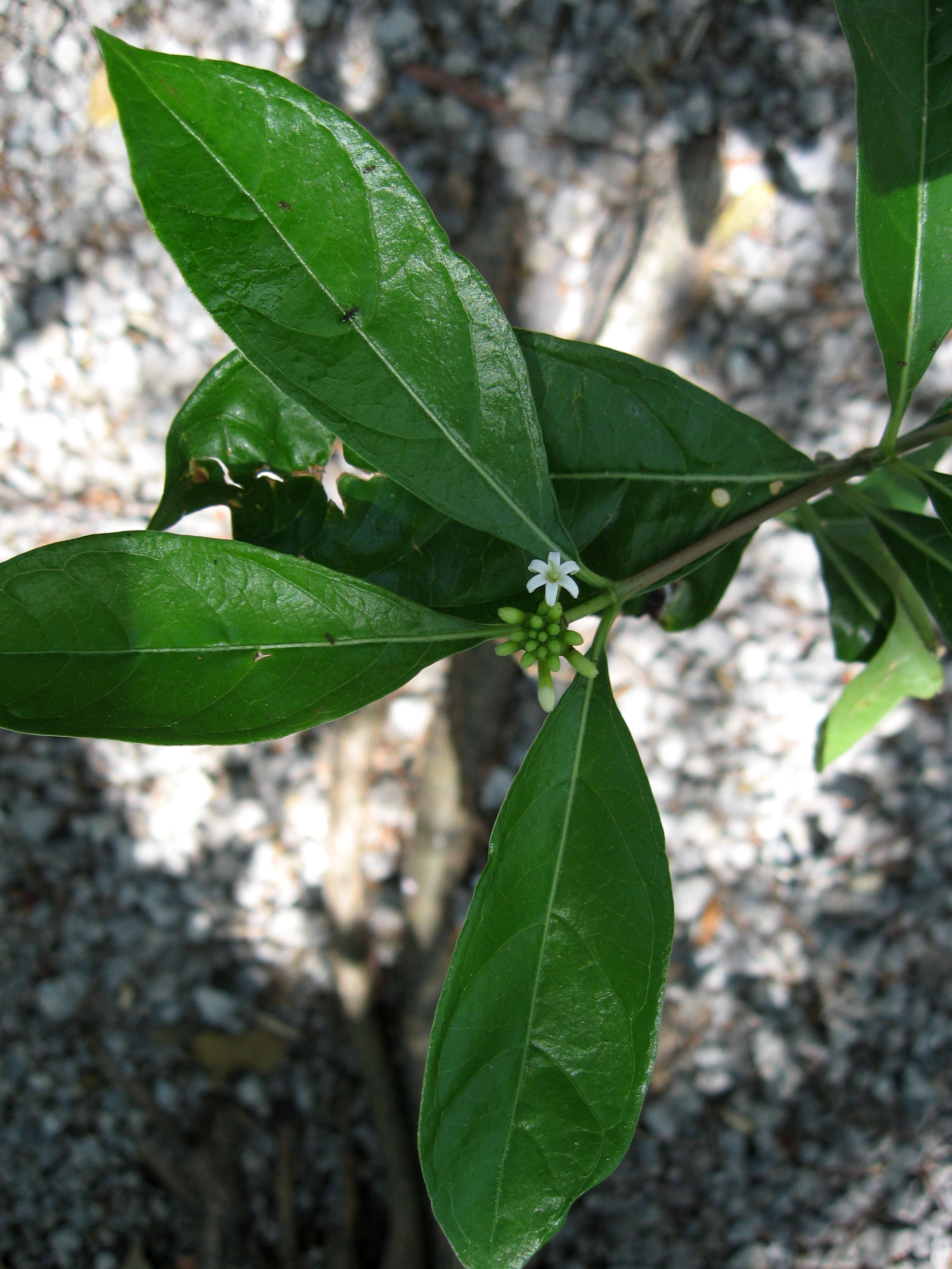 Morinda royoc, near Sunset Cove, Key Largo, Florida.